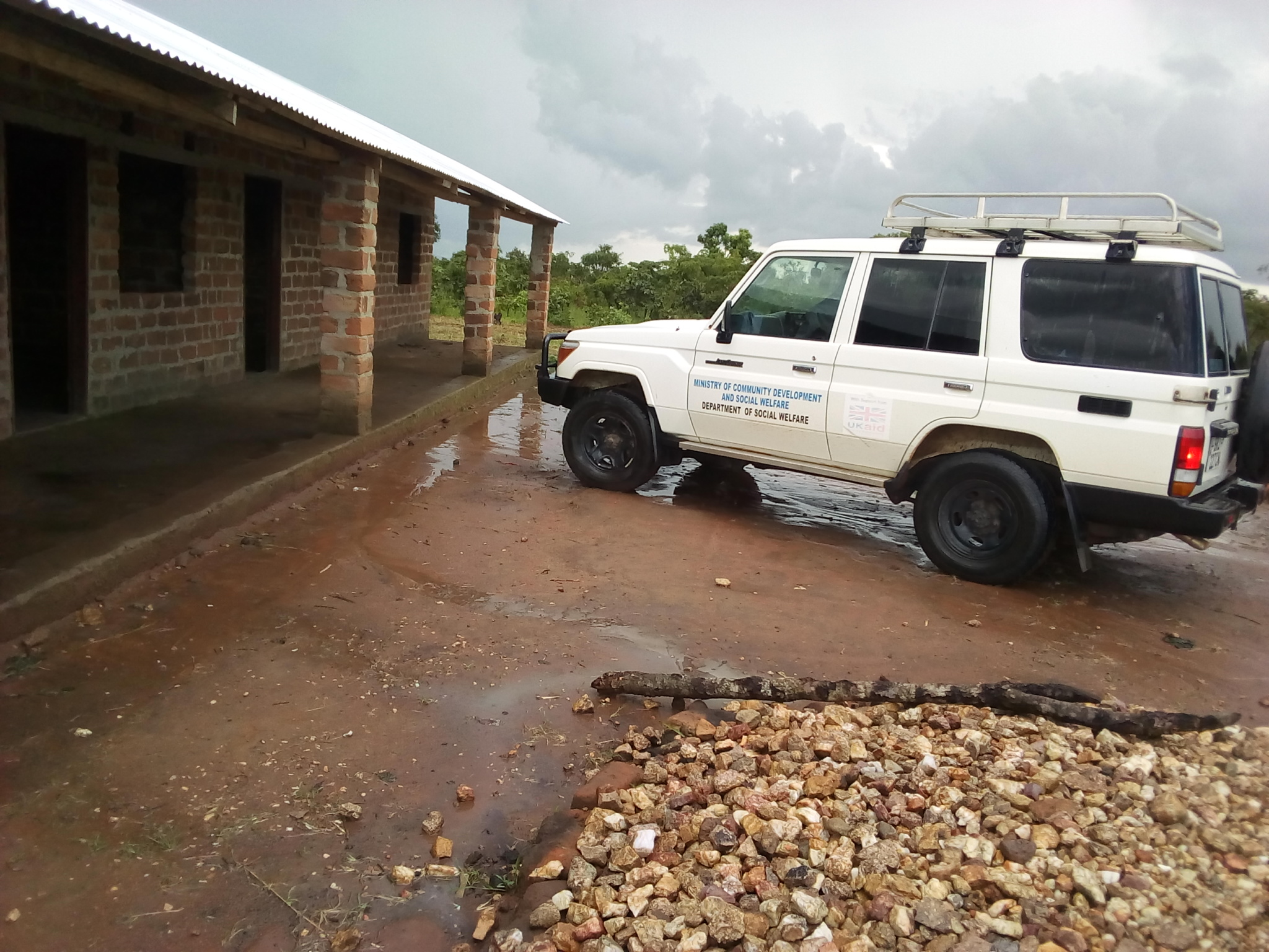 The Community Development and the Ministry Education work hand and in hand in taking social services in rural areas and rural schools This is an image with the theme "Africa on the Move or Transport" from: Zambia